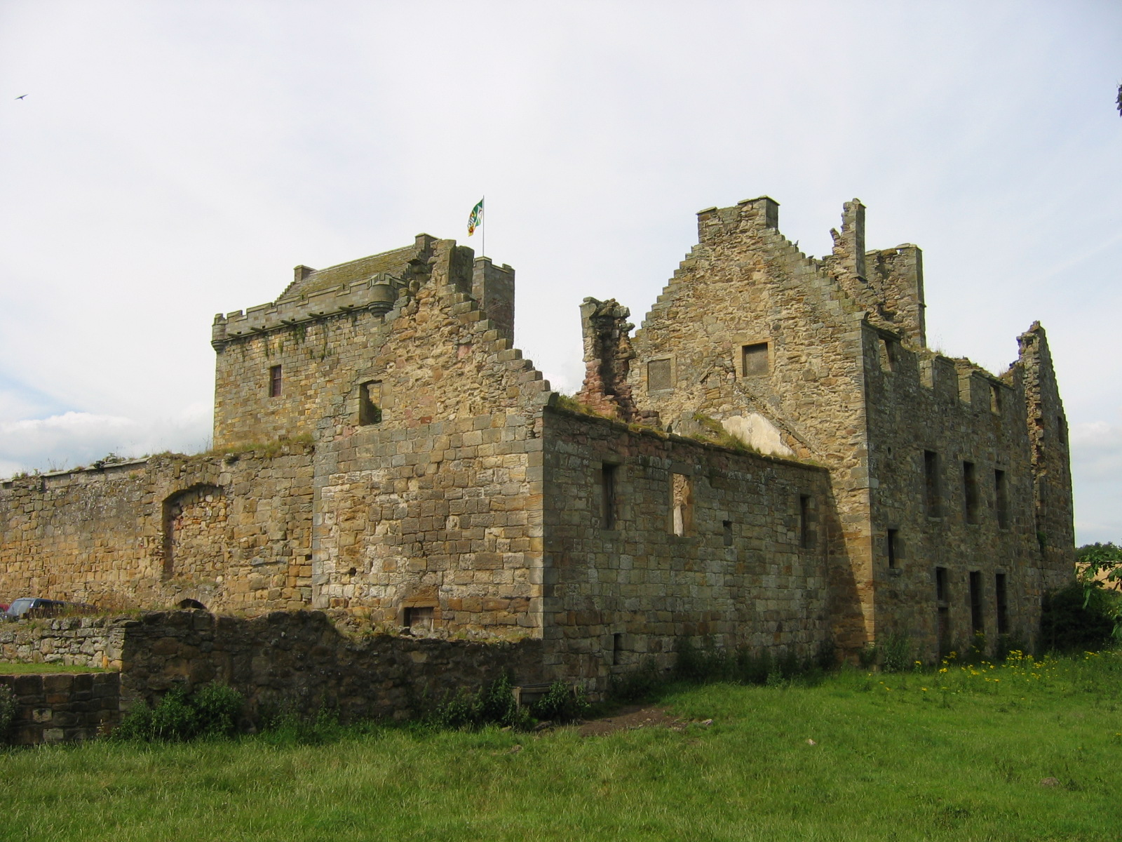 South-east view, Balgonie Castle, Glenrothes, Scotland. Taken by User:Supergolden on 14 July 2006.